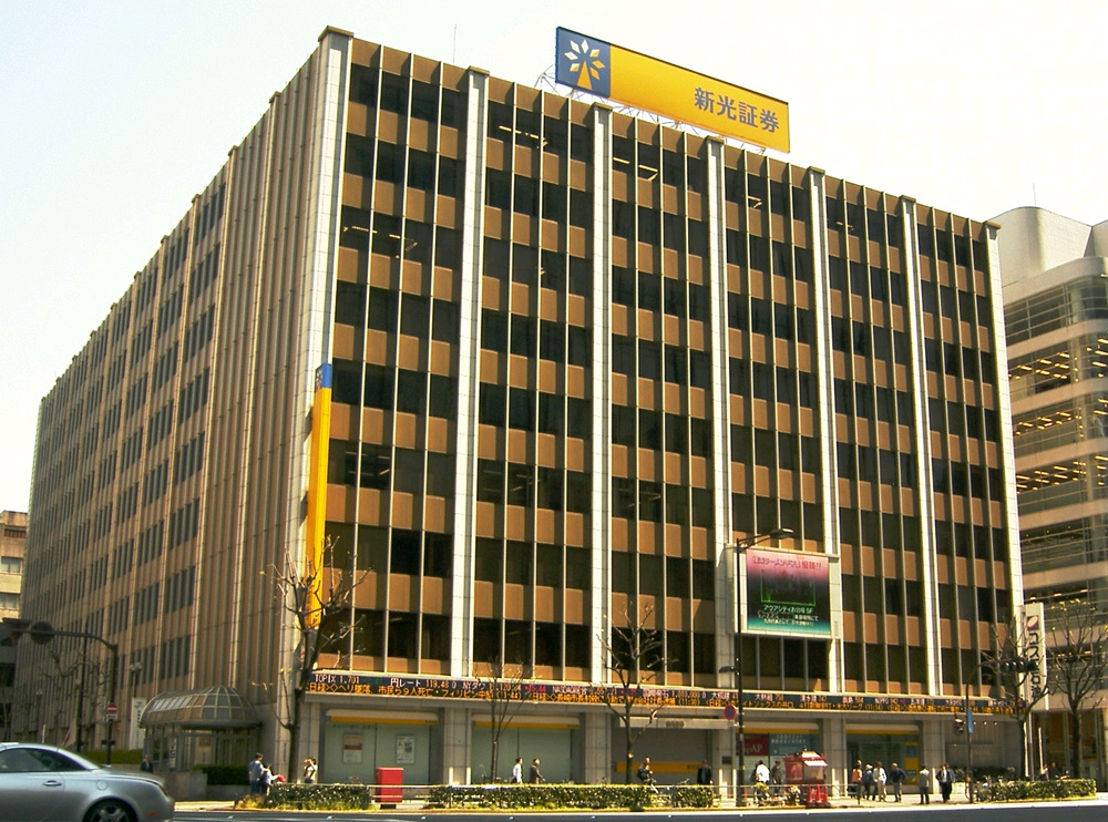 “Shinko Securities” Yaesu office